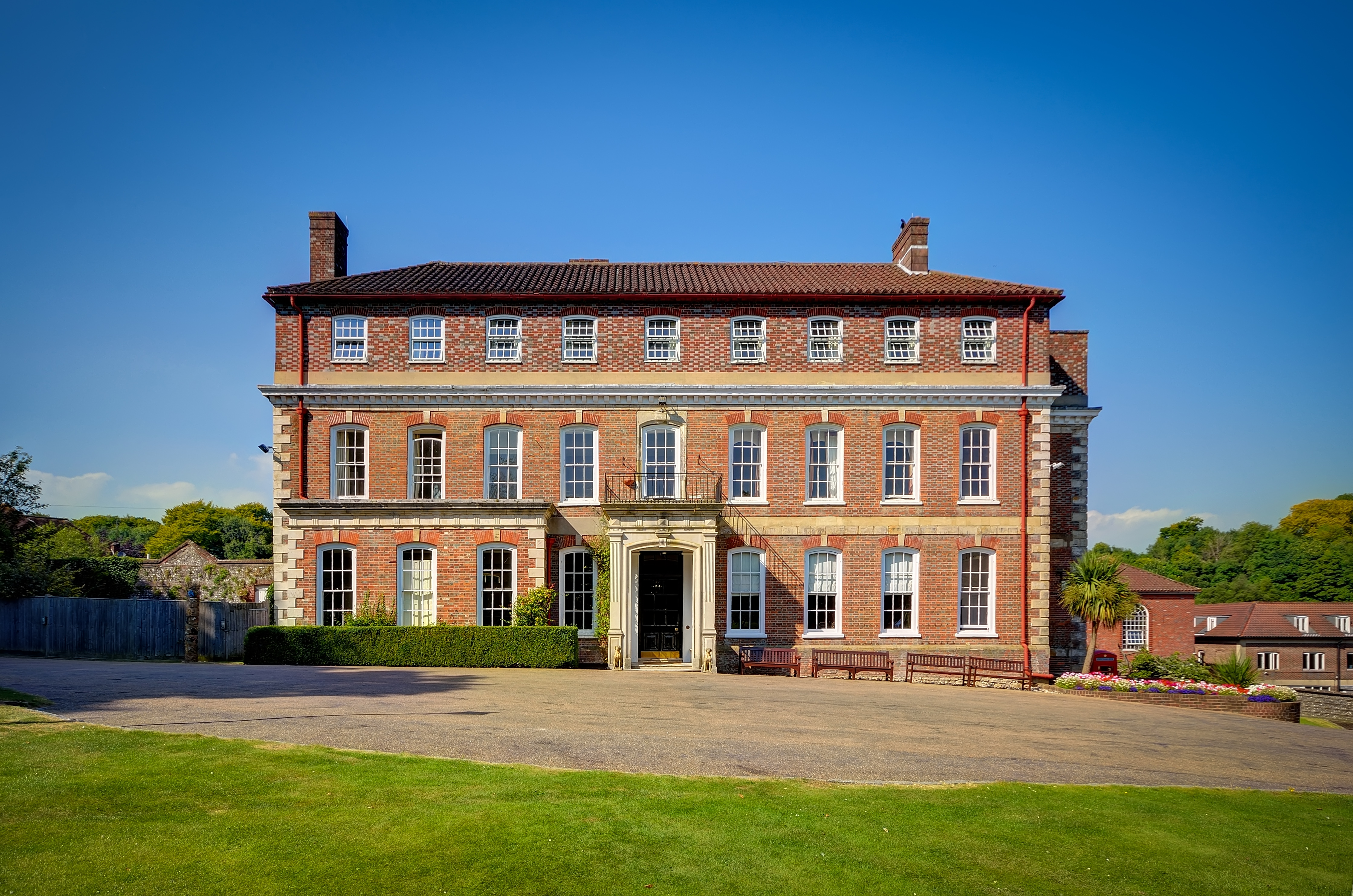 The front of the main building at Windlesham House School